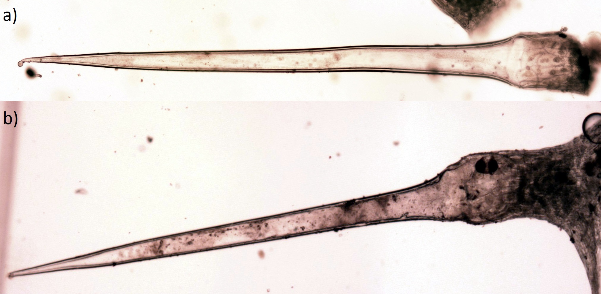 Stinging hair of Urtica dioica, microscopic picture - (a) is intact with the tip still sealed, in (b) the tip broke off to form an injection needle for stinging